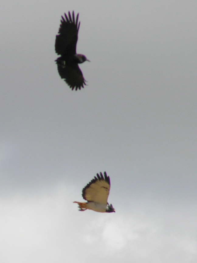 Corvus capensis harassing an Augur Buzzard. Debre Berhan, Ethiopia.